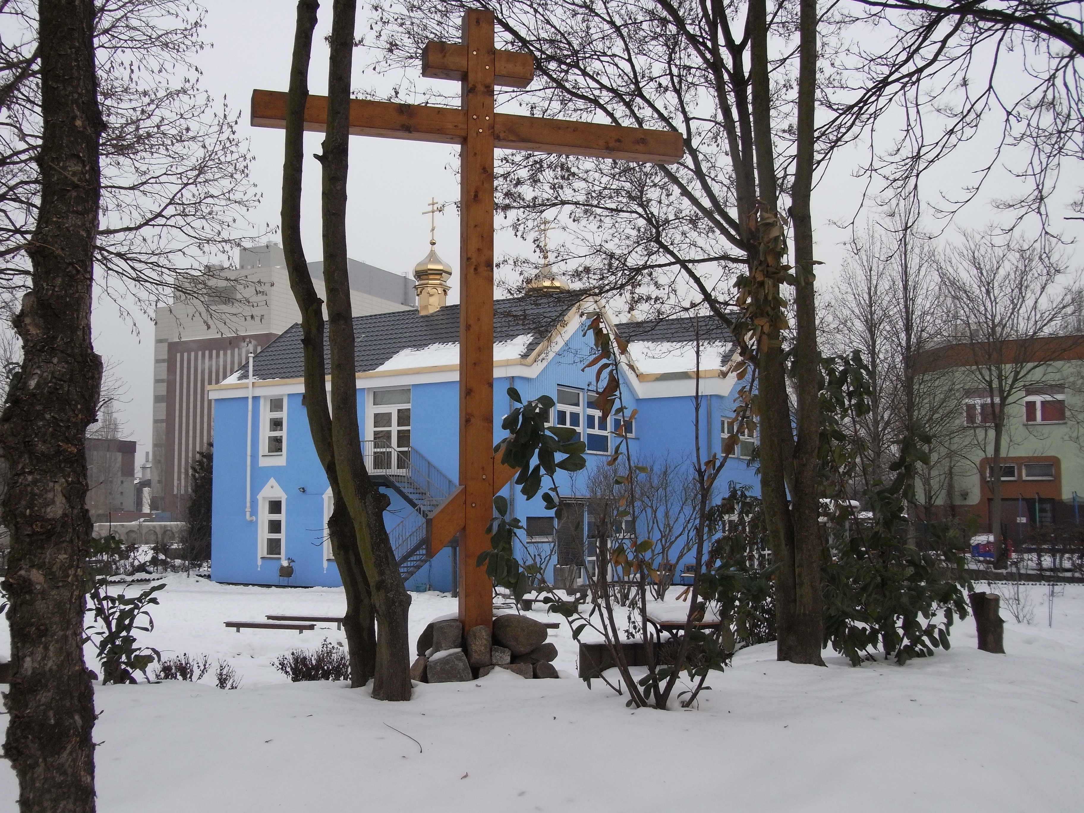 Russian Orthodox church at Wintersteinstraße in Berlin-Charlottenburg